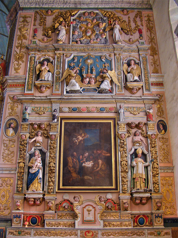 Notre-Dame Church, Saint-Thégonnec, Finistère, Bretagne, France. Retable of the Holy Sacrament, built in 1662-64 by Gabriel Carquain and Guillaume Bourricquen.